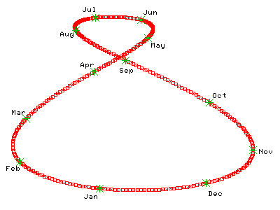 In this image, the analemma for planet Earth is plotted with width highly exaggerated, which permits noticing that it is very slightly asymmetrical (due to the two-week misalignment of the apsides of the Earth's orbit and its solstices). On November 3 the equation of time can be up to 16min 23sec fast; on February 12 it can be up to 14min 20sec slow.